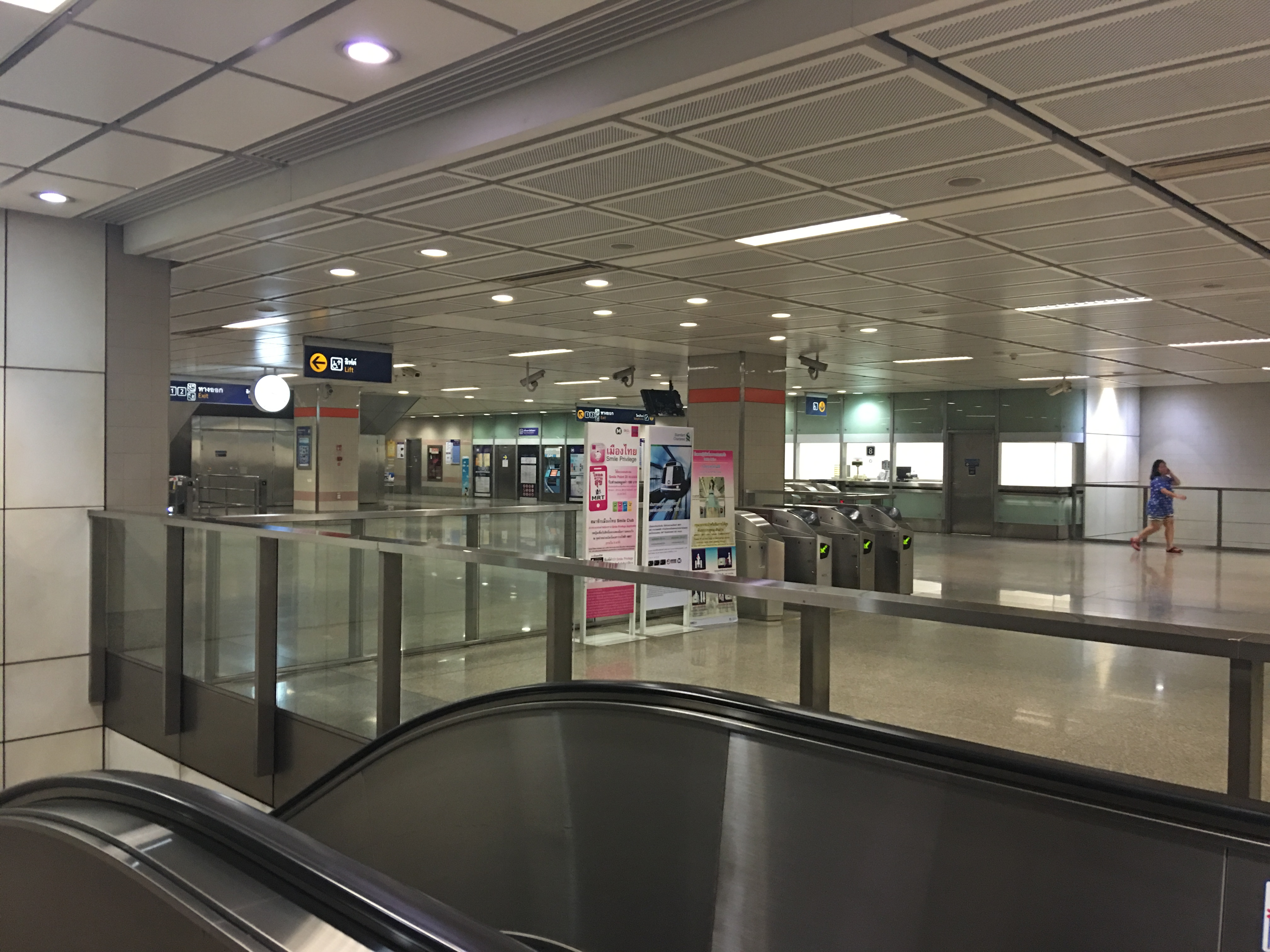 The concourse level of Khlong Toei Station